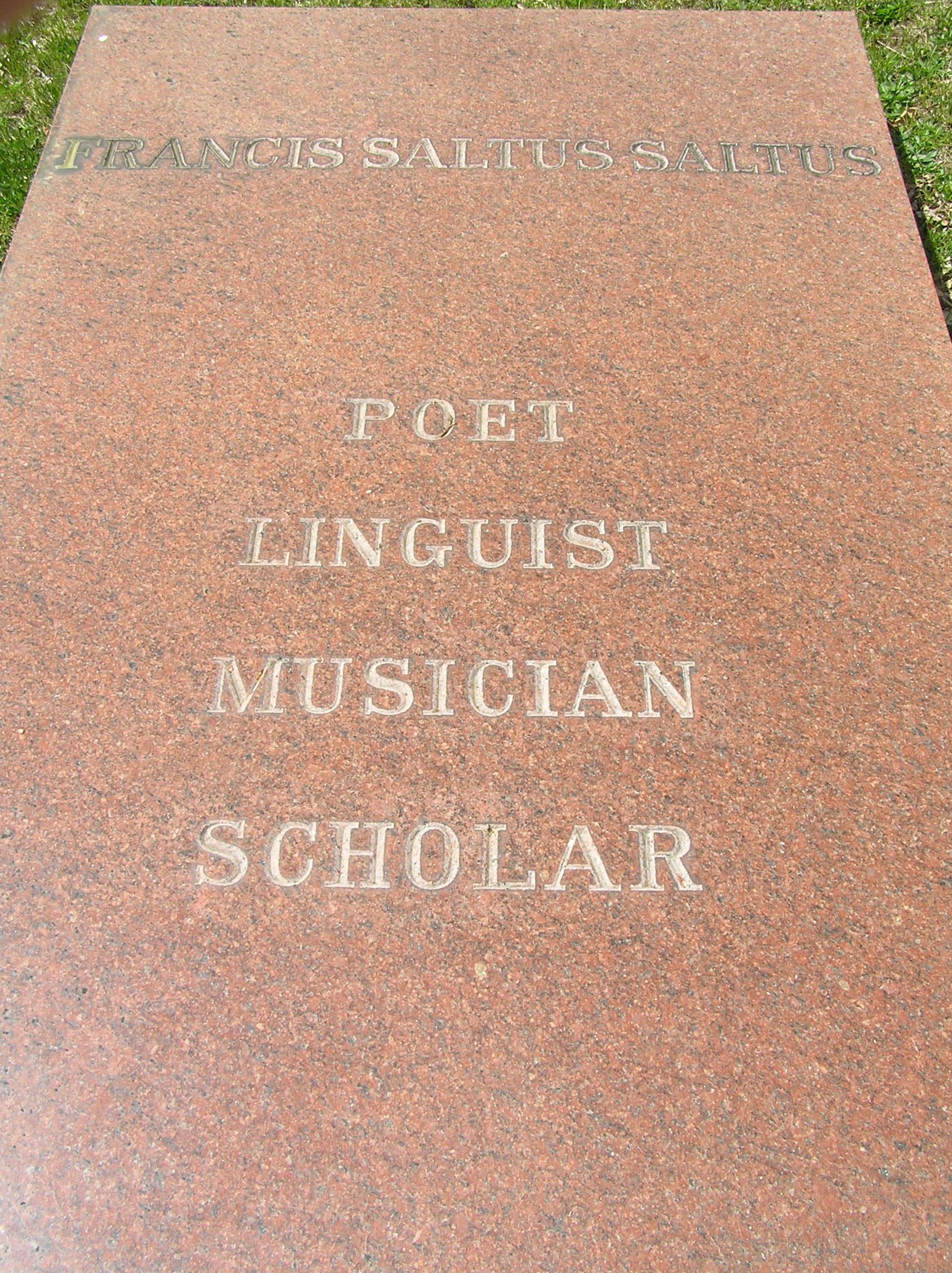 added photograph of monument of Francis Saltus Saltus in Sleepy Hollow Cemetery